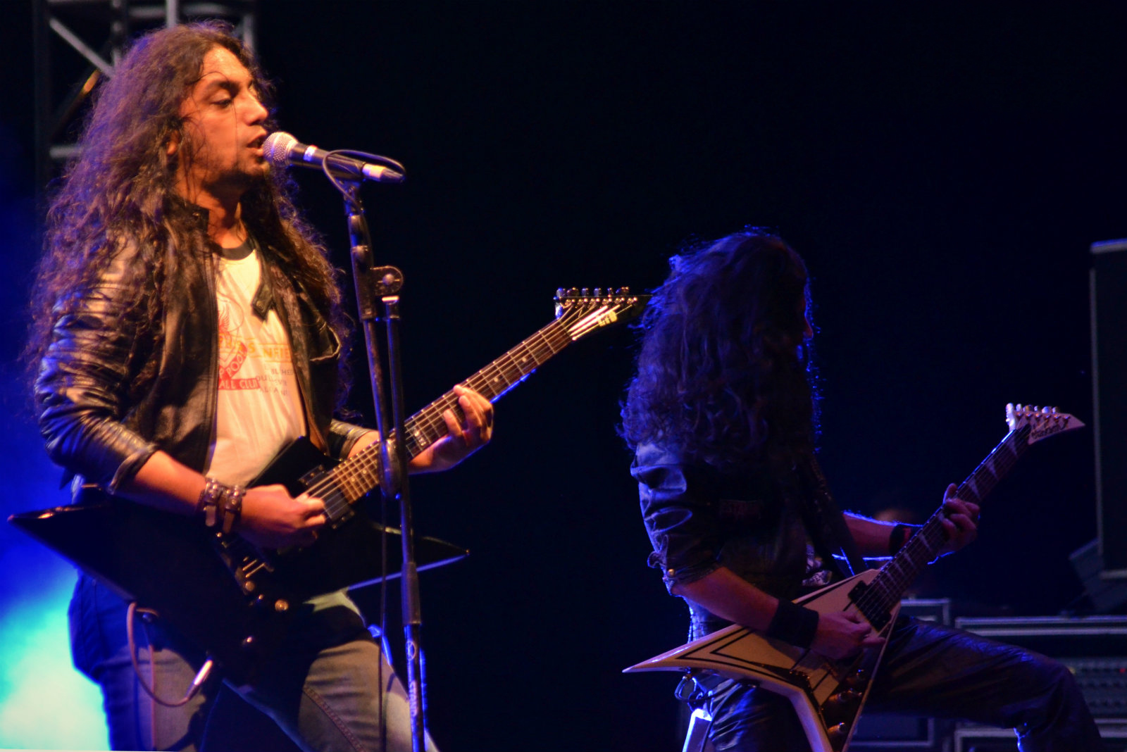 Kryptos performing at Harley Rock Riders Season III. The event was organised by Harley-Davidson India in Bangalore, India. (Jim Ankan Deka photography)